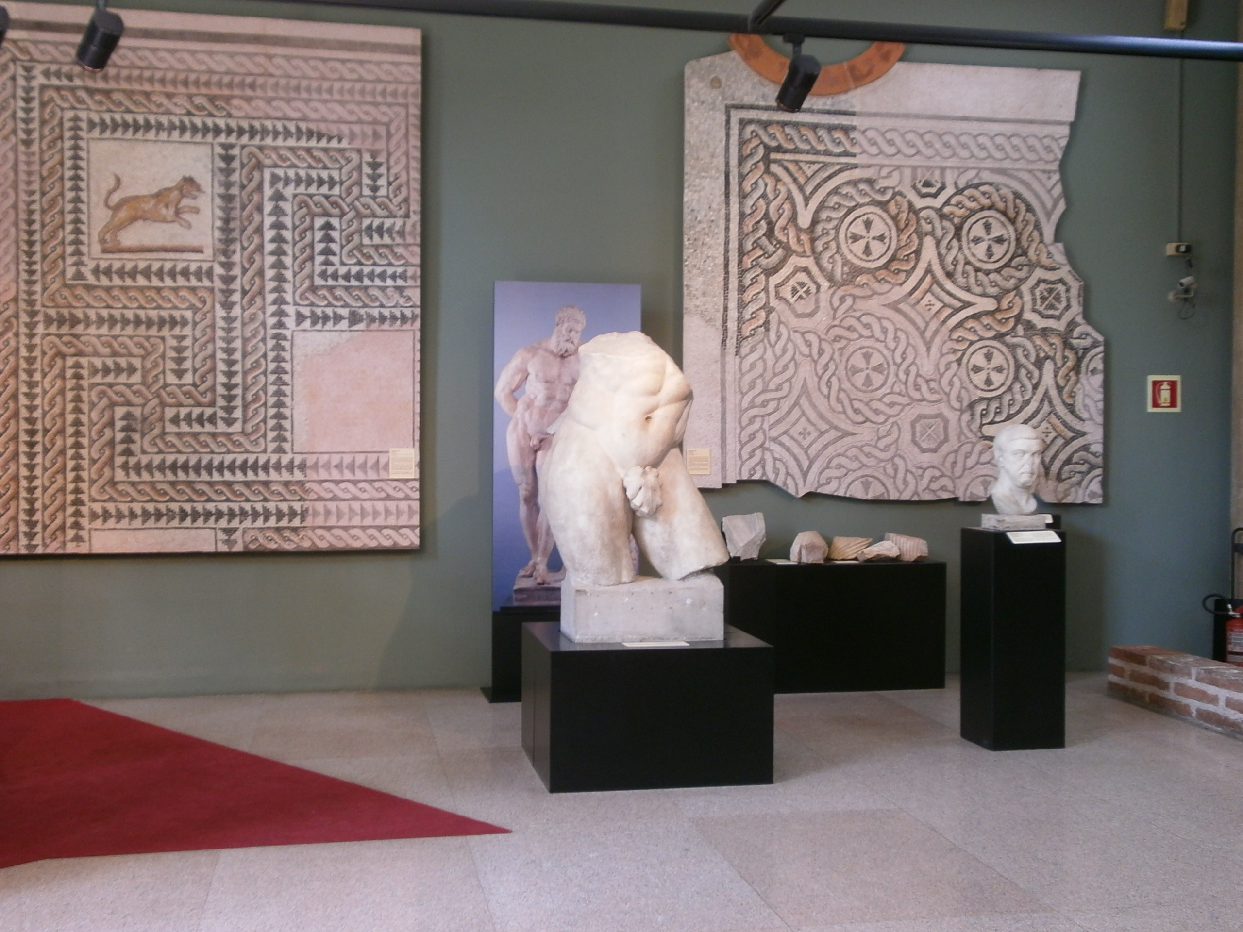 Archaeological Museum in Milan, (Italy). Fragment of a Roman (2nd century AD) statue of Hercules, belonging to the Hercules Farnese typology. Found near the "Erculean Baths" in Milan.